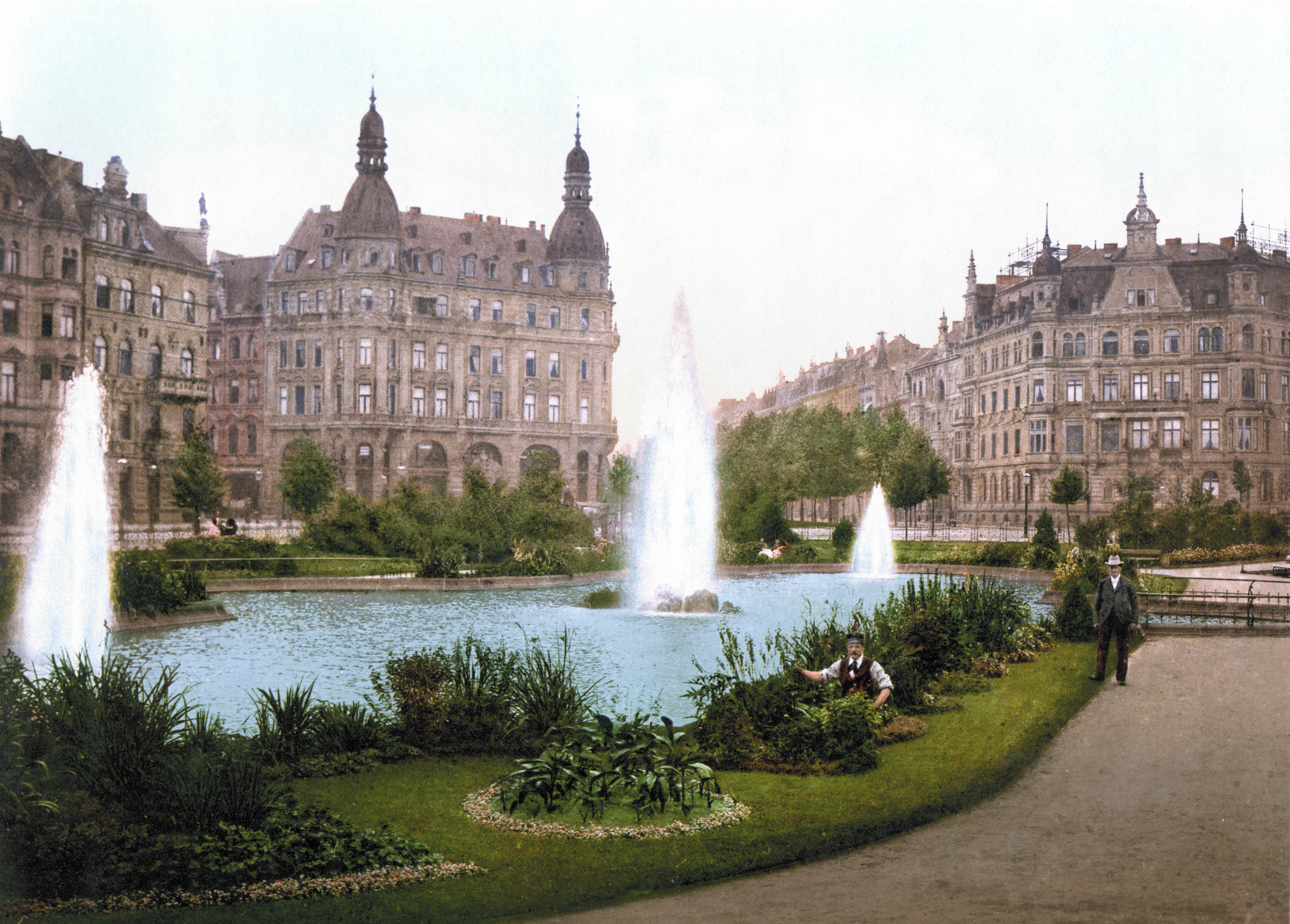 Der Deutsche Ring, Cologne, the Rhine, Germany, 1890-1900